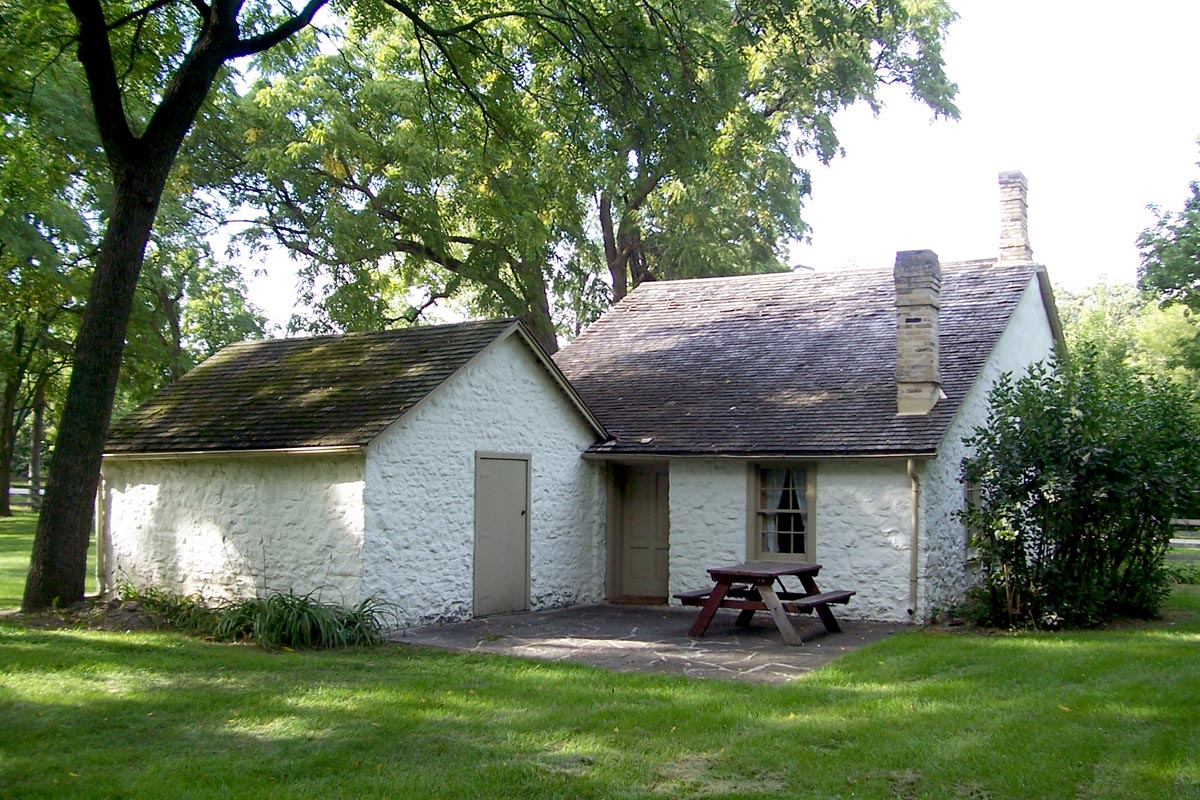 Copyright © 2005 Sulfur The historic Jeremiah Curtin House is a unique stone building that is part of the Trimborn Farm estate in Greendale, Wisconsin. It was the boyhood home of noted American linguist and folklorist Jeremiah Curtin.